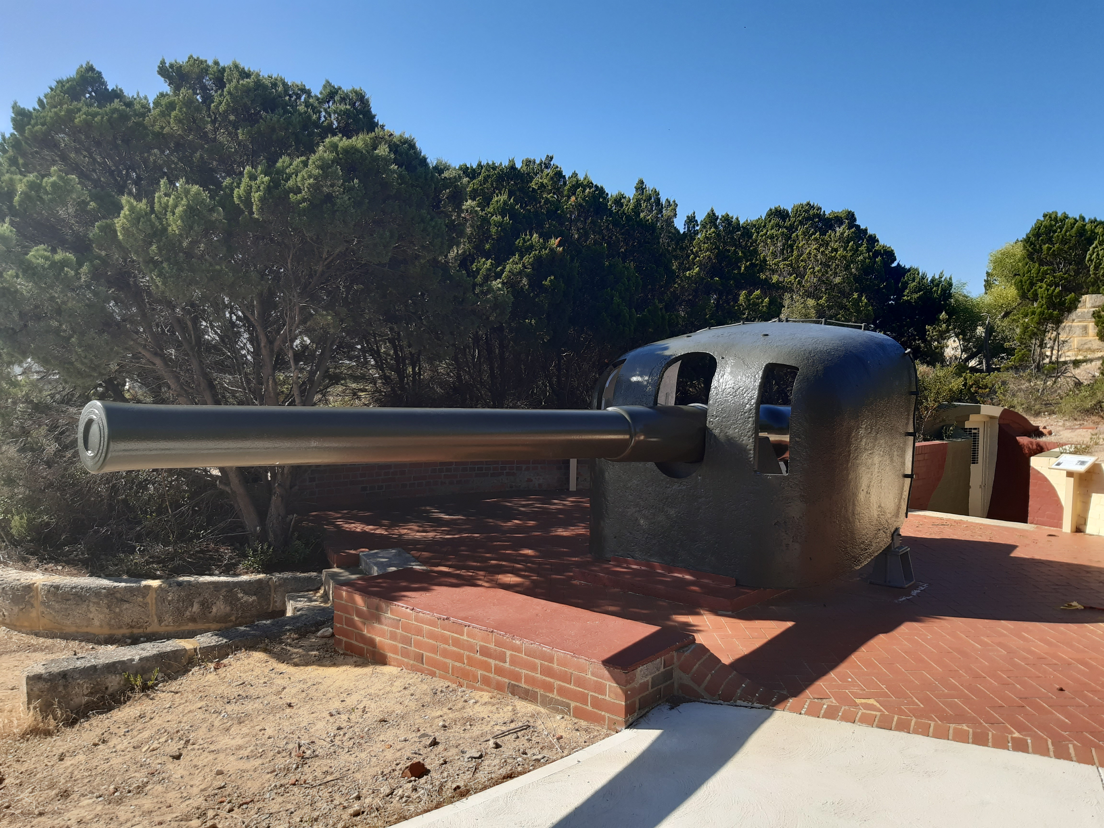 A 6in Mark VII gun replica at Leighton Battery, Western Australia: According to signage, the two guns were once part of the Fremantle Fortress. The original guns were transferred to Albany in 1945 and replaced by anti-aircraft guns. In 1998, a MKXI barrel from the Bickley Battery, Rottnest Island, was installed at location, the gun itself having originally come from the Chatham-class light cruiser HMAS Sydney. The shield, originally from the HMAS Adelaide, was donated by the Mornington Peninsular Shire and installed at location in 2015 to replicate the original war time guns.